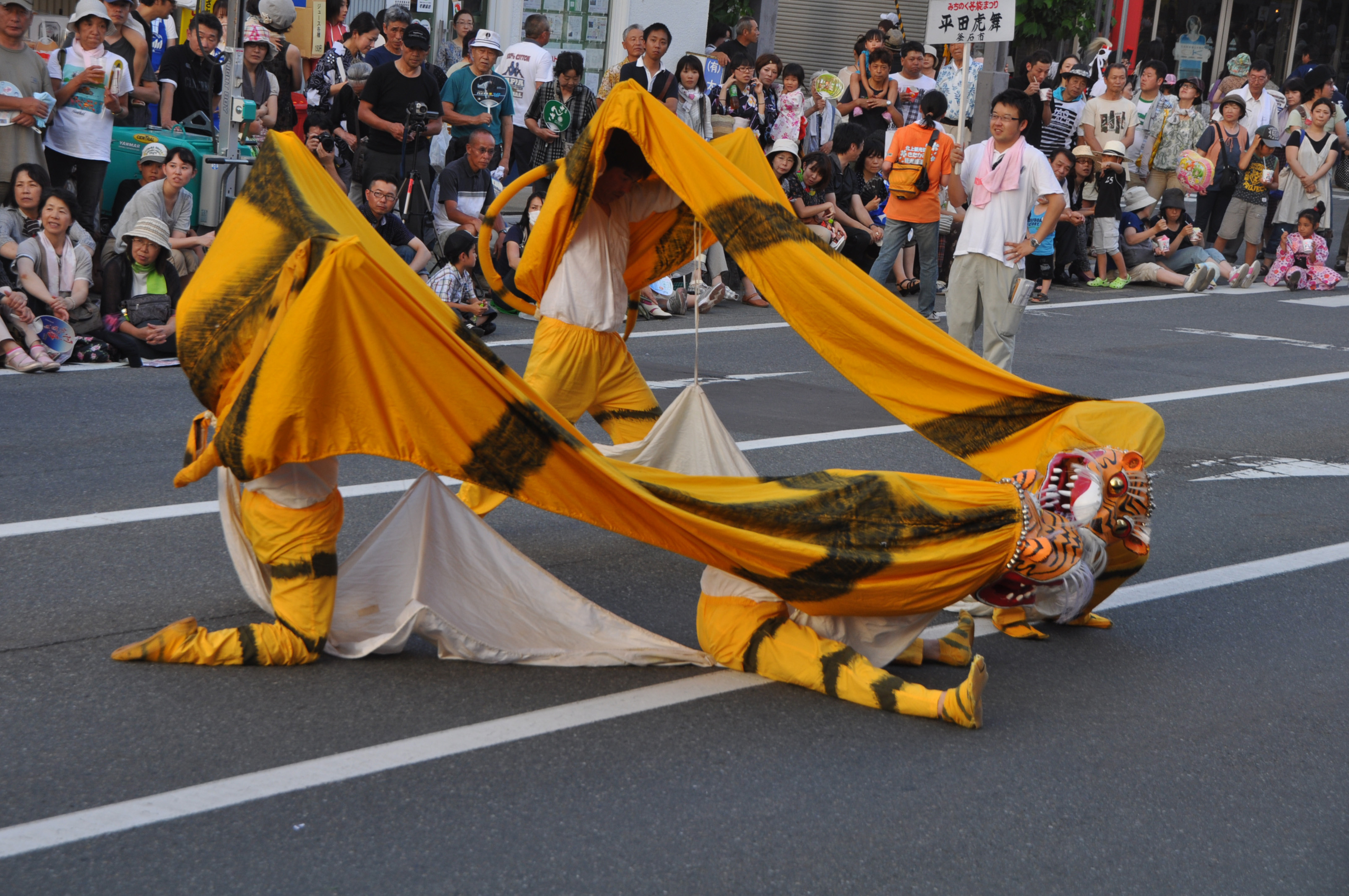 Tiger dance of Kamaishi, Japan, 1 performed in the street of Kitakami City